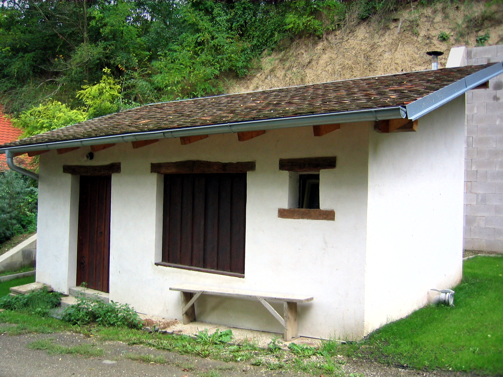 Mühlbergkellergasse Sitzendorf Objekt 9